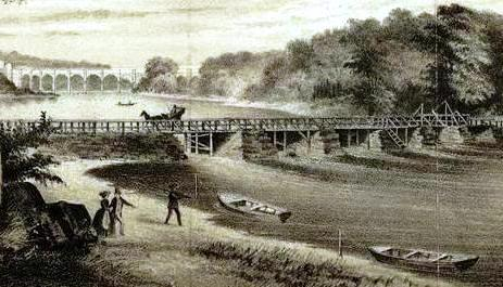 Image Title: Macombs Dam, Harlem River 1850. Published Date: 1860 Depicted Date: 1850 Specific Material Type: Prints Item Physical Description: 1 print : col. ; 17 x 22 cm. (6 1/2 x 8 1/2 in.) Notes: Printed on border: "For D. T. Valentines Manual, 1860." Original Source: From Manual of the Corporation of the city of New York. (New York : The Council, 1840-1870) New York (N.Y.). *Common Council, Author. Source: Mid-Manhattan Picture Collection / New York City -- Harlem River Source Description: 1 folder (13 pictures) Location: Mid-Manhattan Library / Picture Collection Catalog Call Number: PC NEW YC-Harl-Ri Digital ID: 804957 Record ID: 692347 Digital Item Published: 10-28-2005; updated 8-10-2010